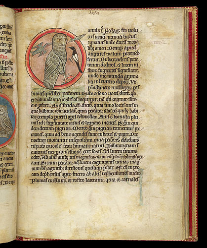 An entire manuscript page (right side), showing an owl (Bubo) and three smaller birds.